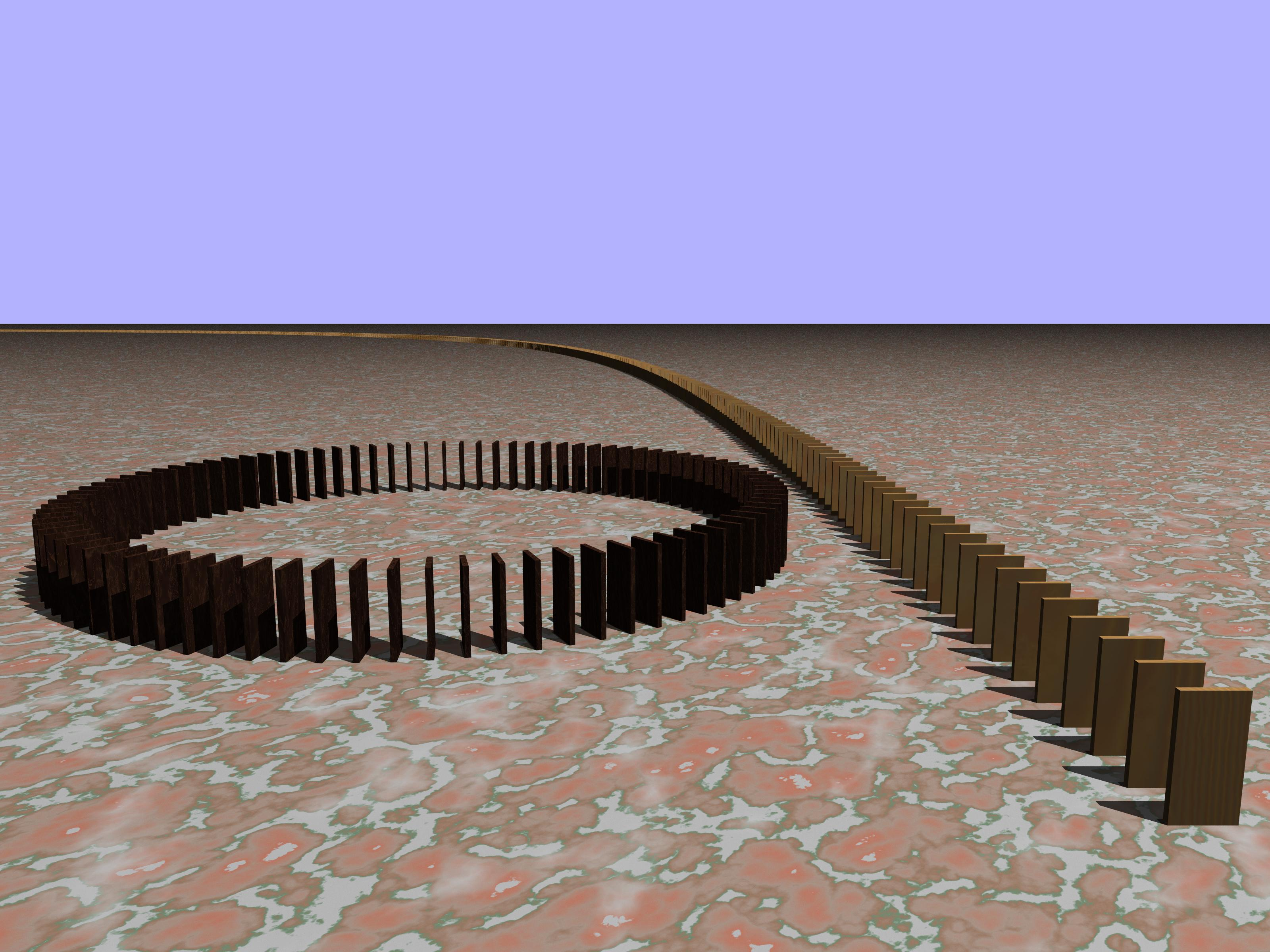 Shows an infinite chain of (light wood) domino pieces and a circle of (dark wood) pieces. If the first light piece is overthrown, each light piece will eventually fall, while no dark piece will be affected. The shown configuration illustrates a model of Peano's axioms for natural numbers, except for the induction axiom. The latter requires all pieces to fall if the first one is overthrown.